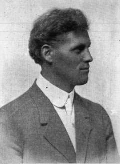 George Toomey, Fort Collins, Colorado